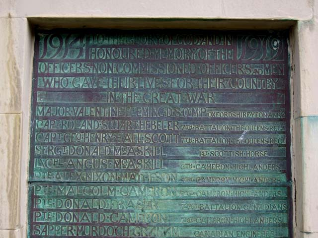 A link to James Bond Ian Fleming's father is commemorated on the Glenelg War Memorial (see his name at the top of the list), Major Valentine Fleming. Ian Fleming created the character - 'James Bond'.